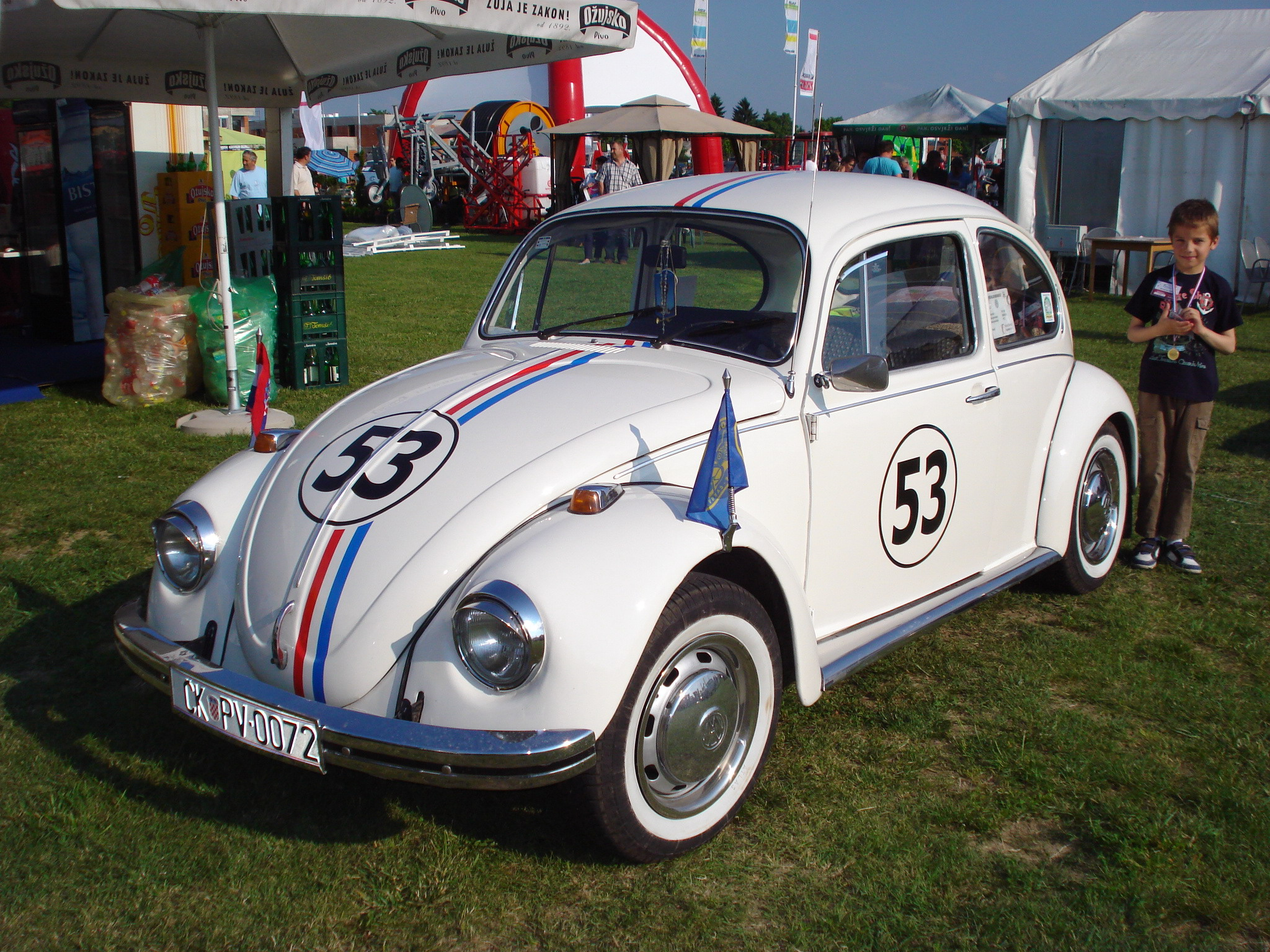 A VW-beetle "Herbie"-replica oldtimer at MESAP Fair 2013. in Nedelišće, Croatia (front side)